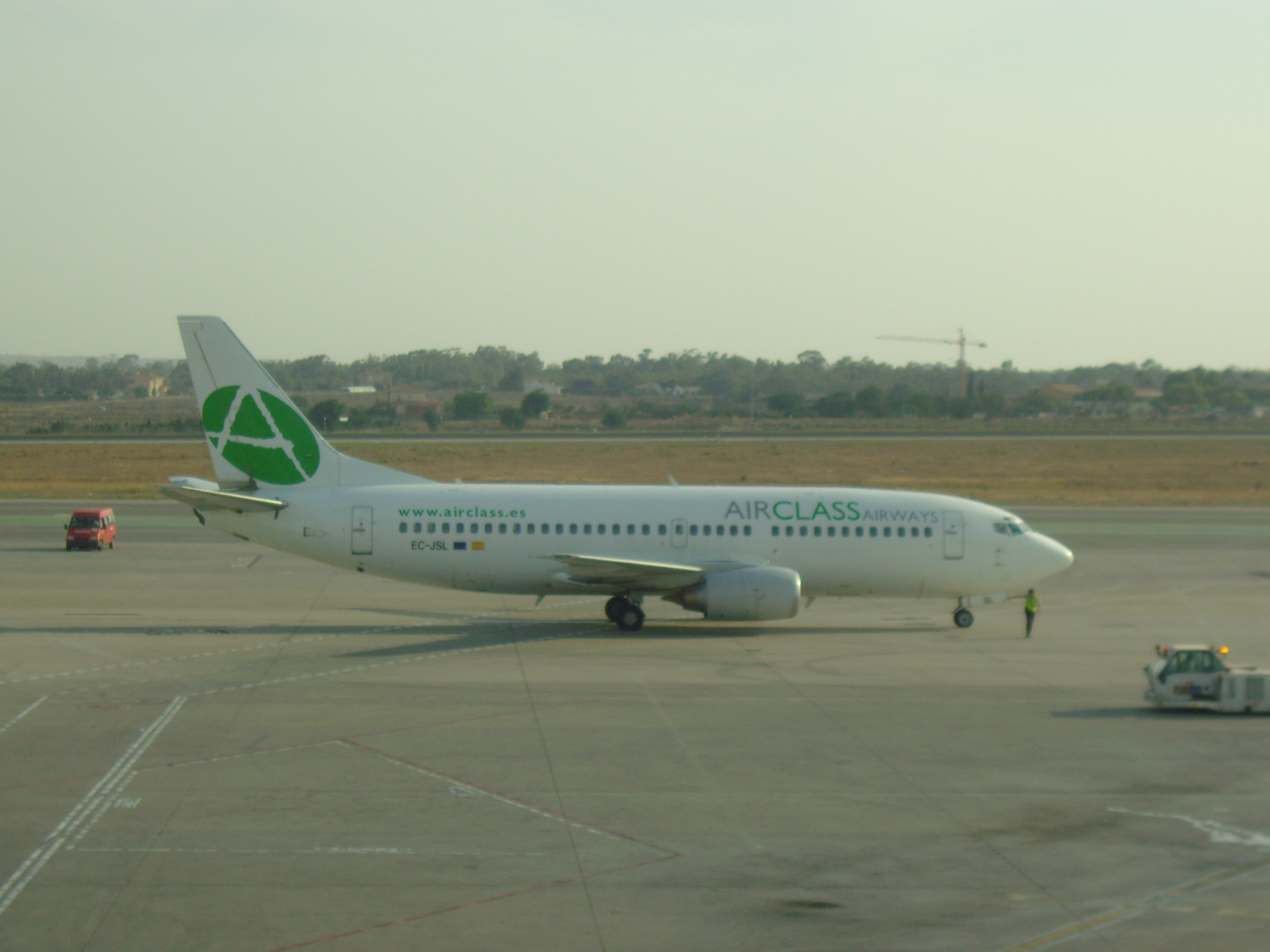 AIRCLASS Airways B737